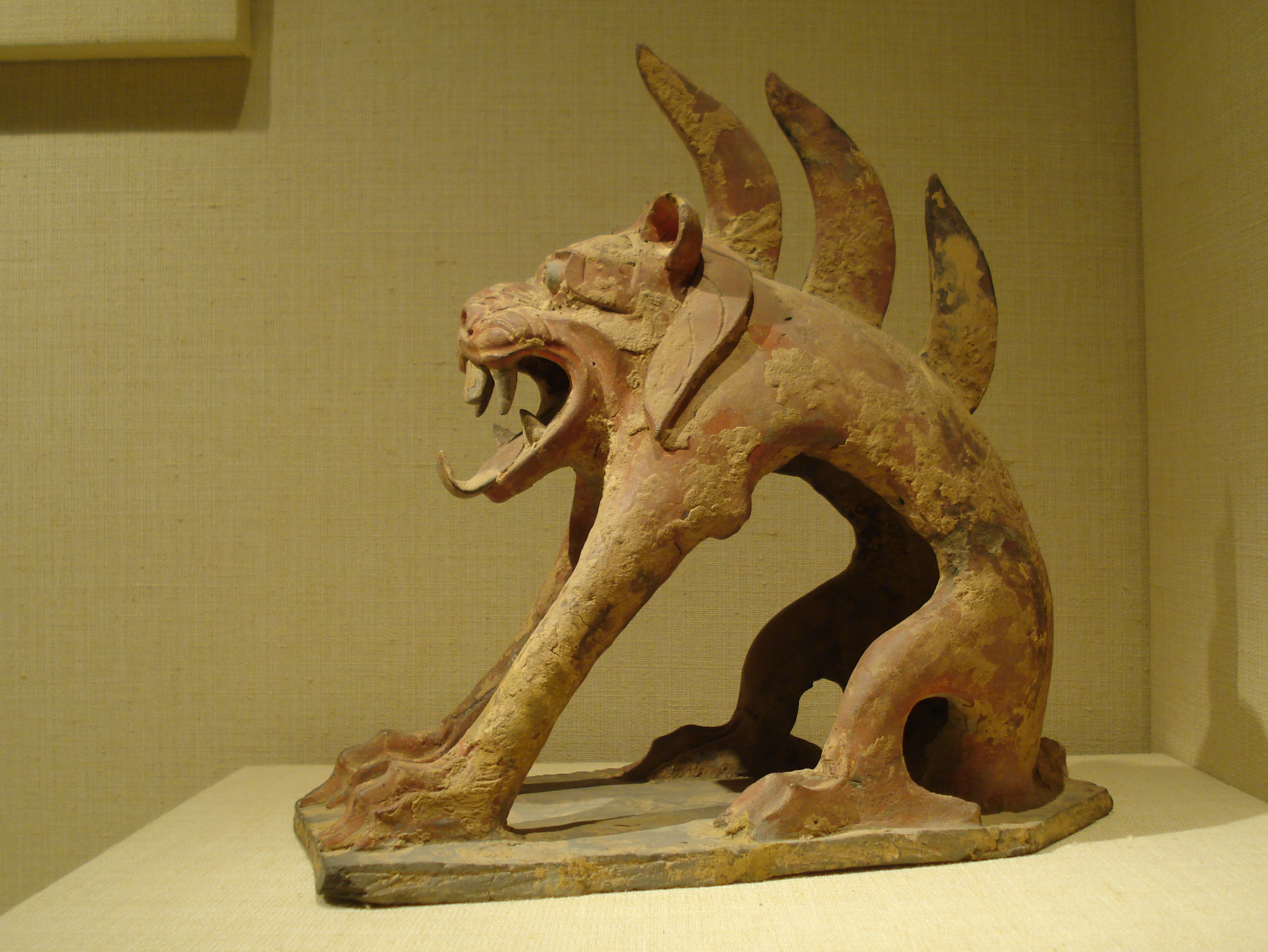 Chinese tomb guardian, or Zhenmushou. Roughly around the Northern Wei/Northern Qi dynasties. Earthenware and paint.